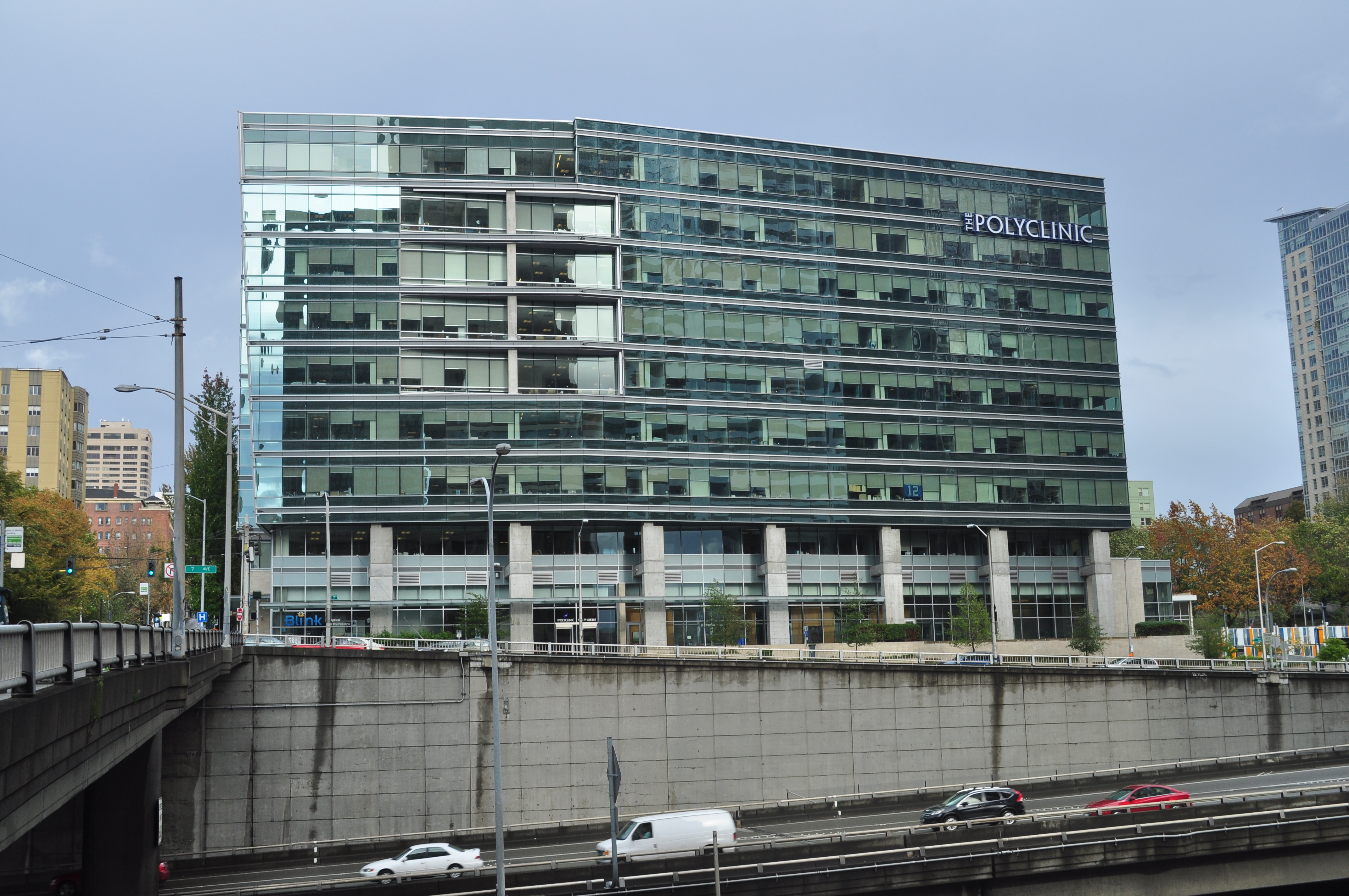 Polyclinic Madison Center from Madison Street overpass, Seattle, Washington.